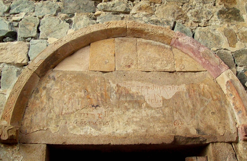 Doliskana. Southern Wall